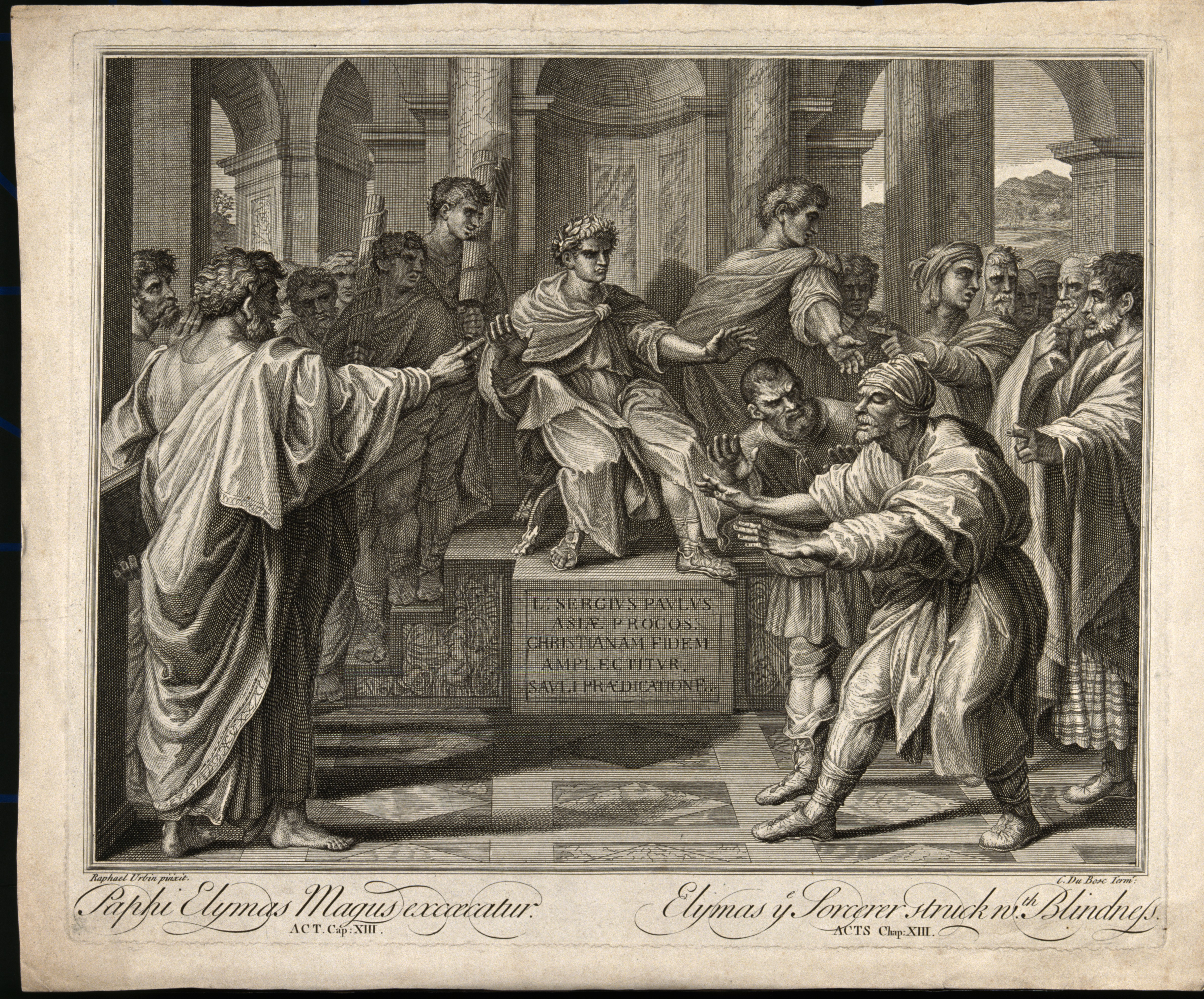 Elymas (also known as Bar-Jesus) the magician is rendered blind by Paul in front of the proconsul of Antioch. Engraving by C. Dubosc after Raphael. Iconographic Collections Keywords: Raphael; Paul; Claude Dubosc; Sergius Paulus; Elymas